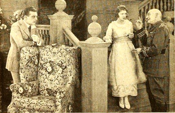 Still from the American film His Official Fiancée (1919) with Forrest Stanley, Vivian Martin, and Tom Ricketts, on page 74 of the March 1920 Motion Picture Magazine.